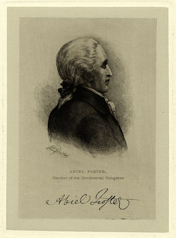 Abiel Foster (1776-1890) member of the U.S. Congressional Congress.